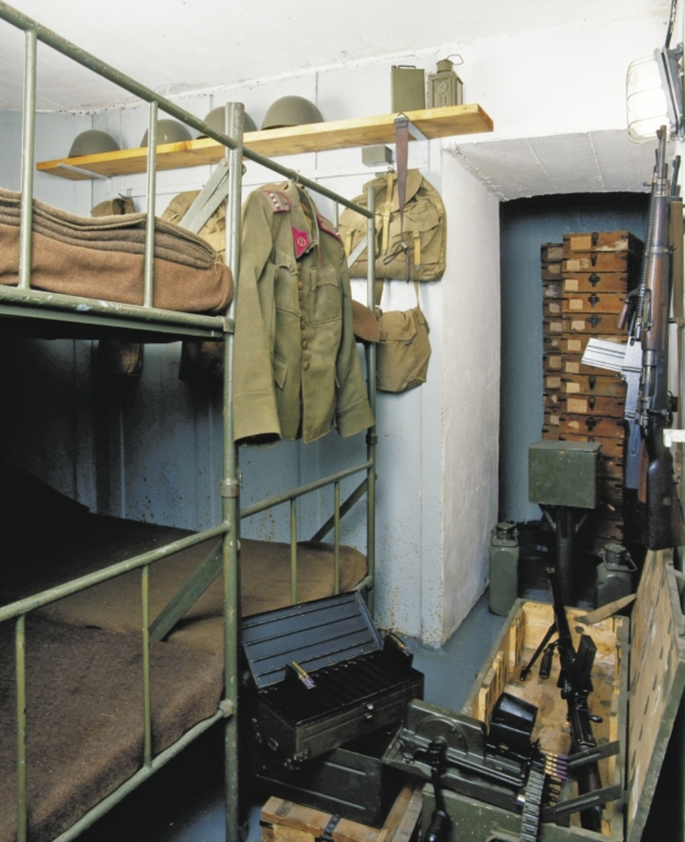 MO-S 19 V aleji infantry casemate; Silesian museum - Darkovičky 4